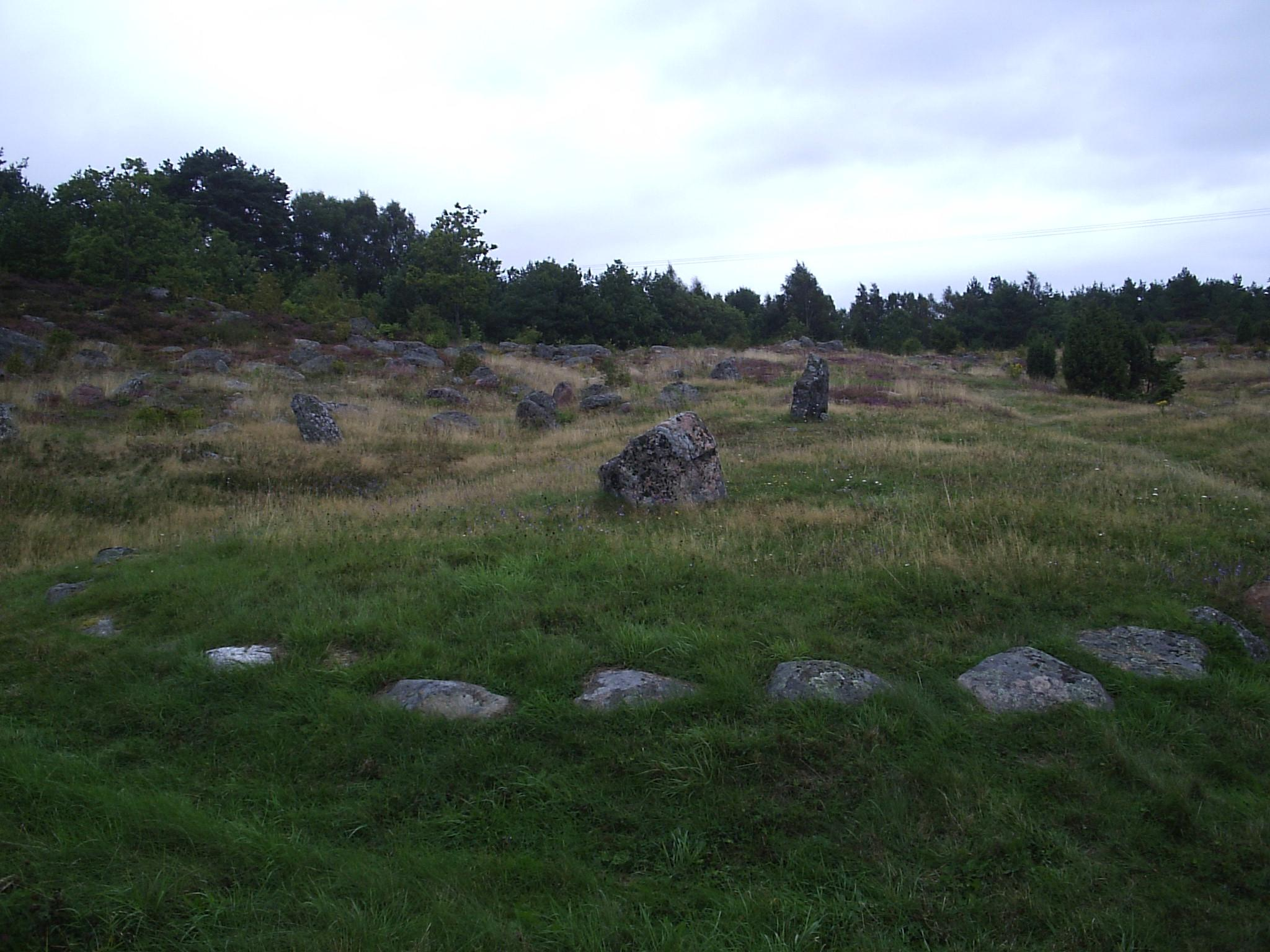 The Iron Age grave field in Pilane (RAÄ-nr Klövedal 105:1) in Klövedal parish, the island Tjörn, Tjörn municipality, Bohuslän, Västra Götaland county, Sweden.